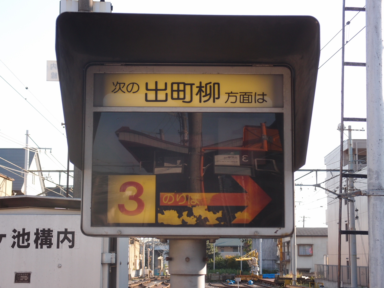 The Electronic signboard in Takaragaike Station of Eizan Electric Railway in Kyoto, Japan.